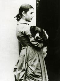 A photograph of Beatrix Potter, aged 15, taken by her father. Beatrix is holding her dog, Spot. From the National Trust.